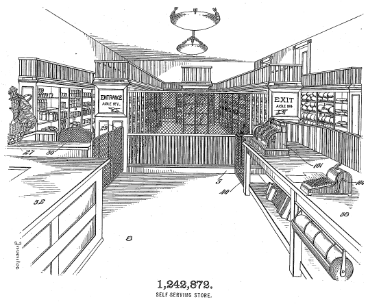 October 9, 1917